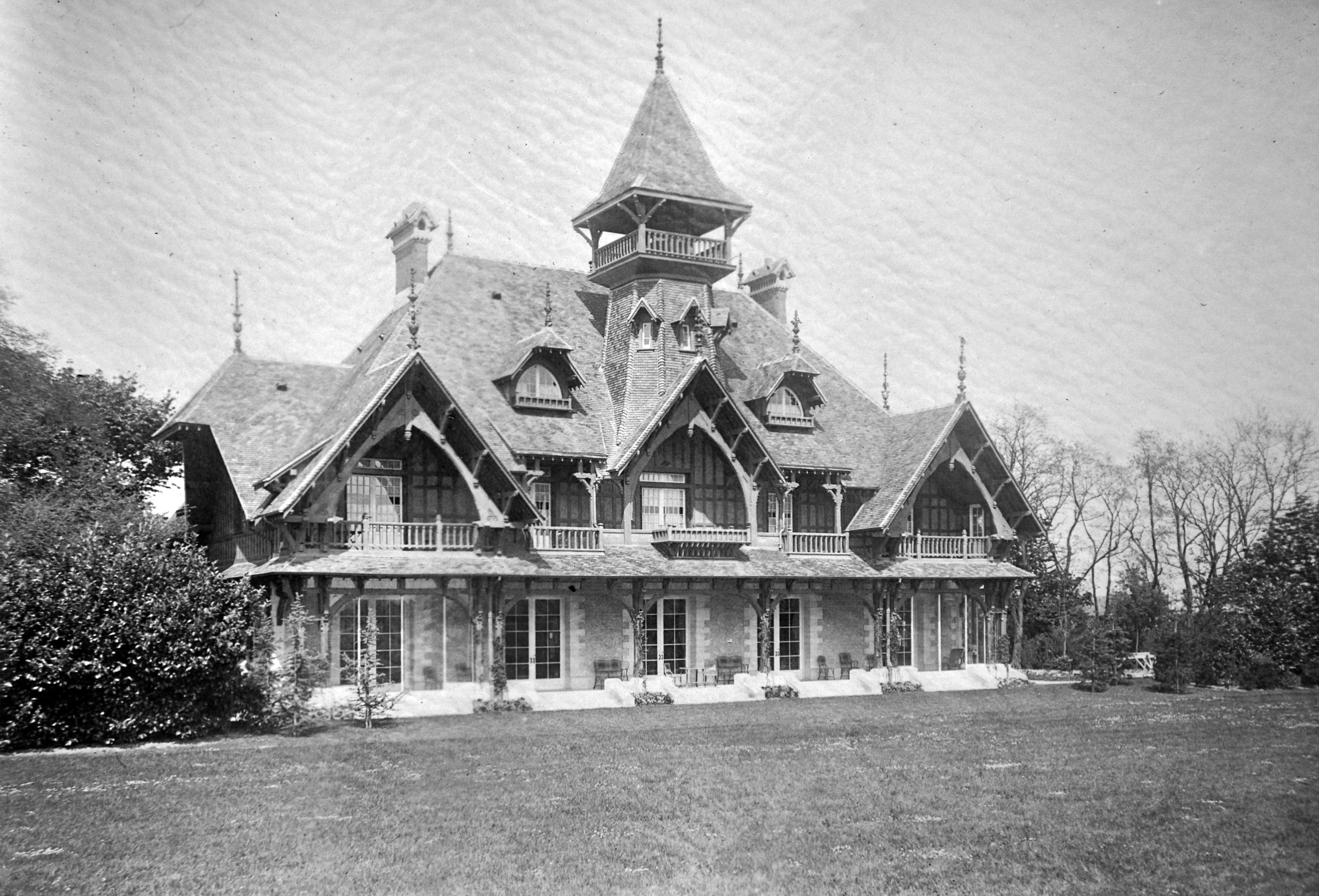 Edmond Blanc's house at la Fouilleuse